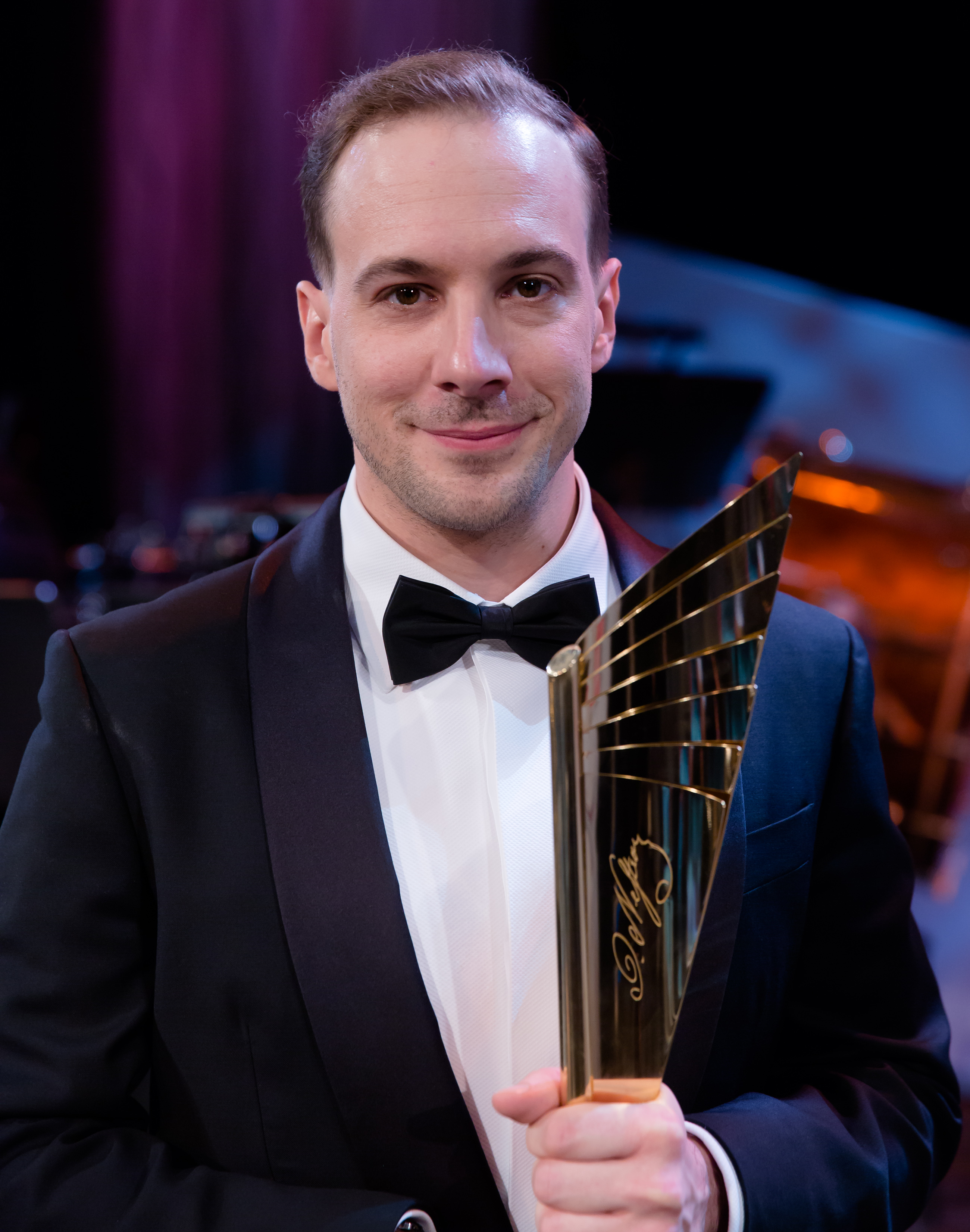 Florian Teichtmeister at the Nestroy Theatre Awards 2015 (Ronacher, Vienna, Austria).